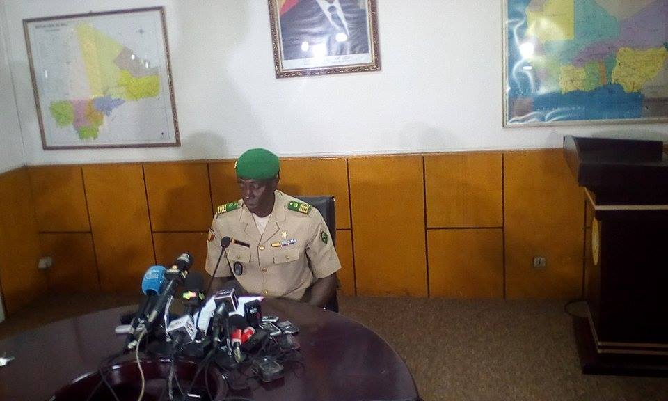 Malian Ministry of Defense spokesman, Colonel Abdoulaye Sidibé, briefs the press on a report about the July 16, 2018 Nampala attack